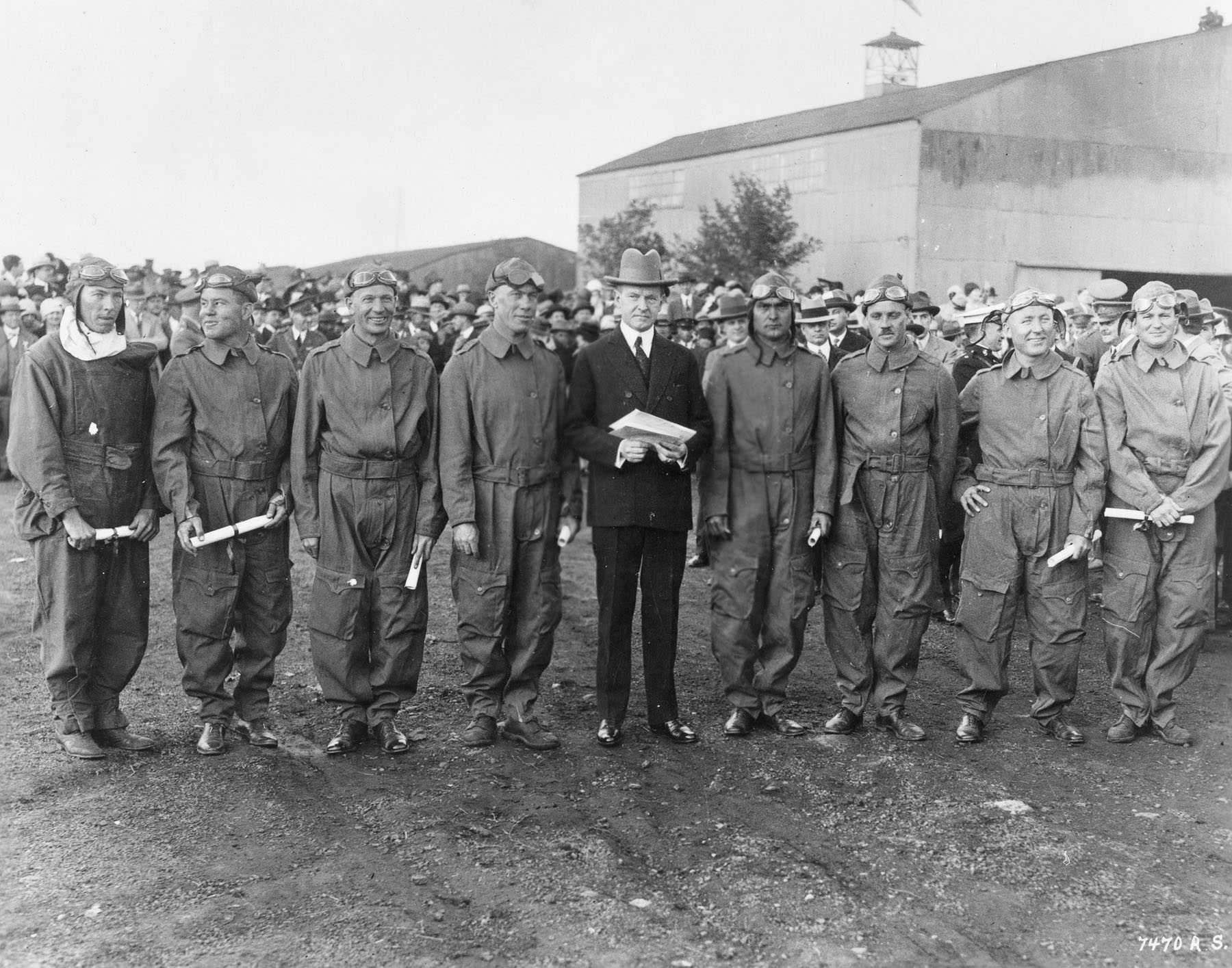 Pan American Flyers receiving DFC certificates from President Calvin Coolidge on 2 May 1927 in Wash., DC Left to right: The New York – Major Herbert Dargue and Lieutenant Ennis Whitehead The San Antonio – Captain Arthur McDaniel and Lieutenant Charles Robinson The San Francisco – Captain Ira Eaker and Lieutenant Muir Fairchild The Detroit – Captain Clinton Woolsey and Lieutenant John Benton The St. Louis – Lieutenant Bernard Thompson and Lieutenant Leonard Weddington